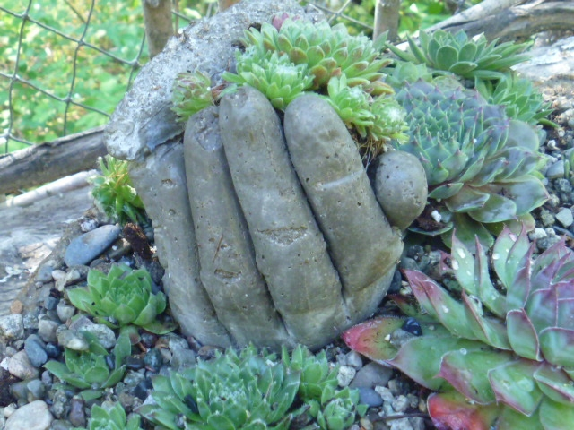 Hypertufa hand cradles some tiny Sempervivum